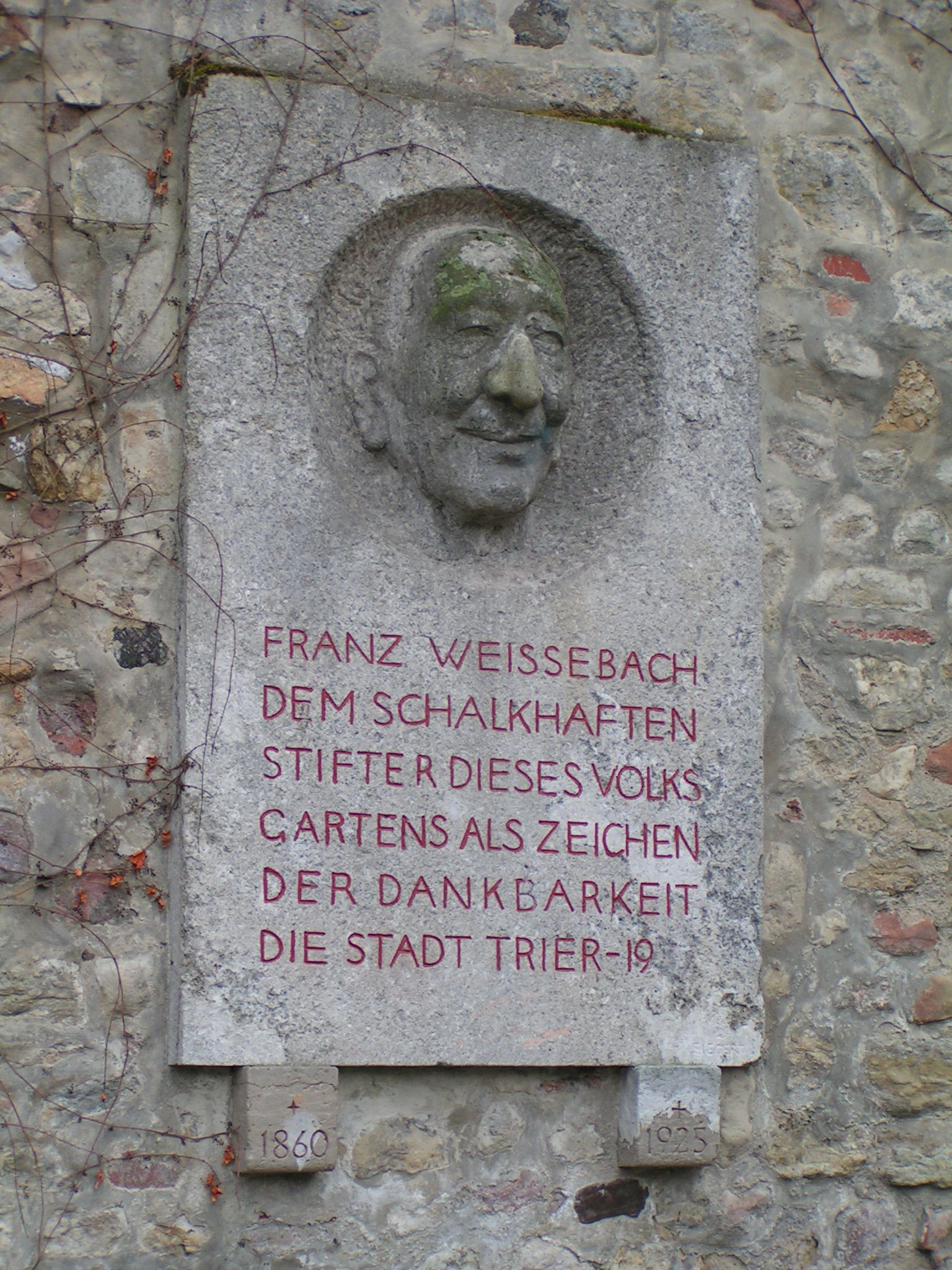 Monument for Frank Weißebach in the Palastgarten, Trier, Germany